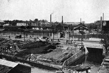 Tokyo_hoheikosho_1930 This photographic image was published before December 31st 1956, or photographed before 1946, under the jurisdiction of the Government of Japan. Thus this photographic image is considered to be public domain according to article 23 of old copyright law of Japan (English translation) and article 2 of supplemental provision of copyright law of Japan. To uploader: Please provide an image source.